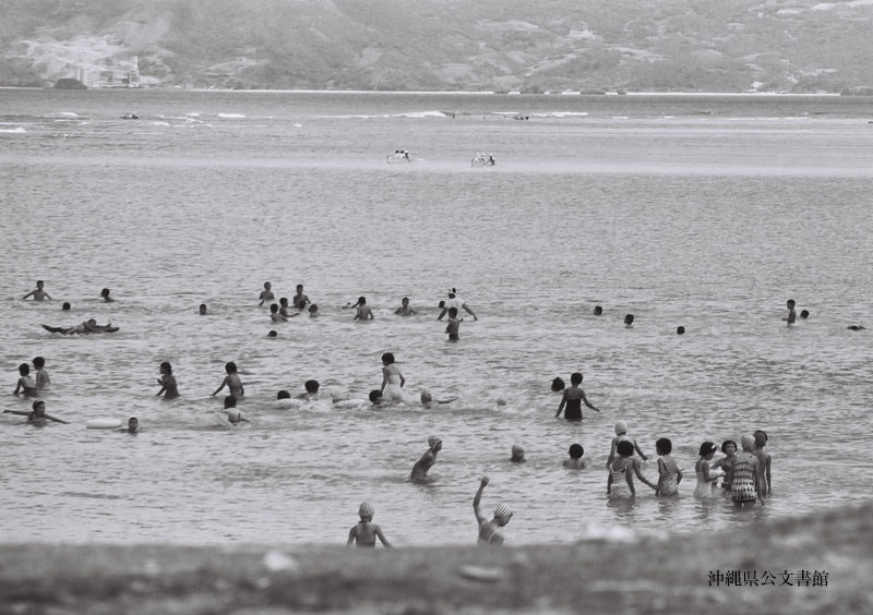 Children who swim at Inbu beach in Onna village, Okinawa